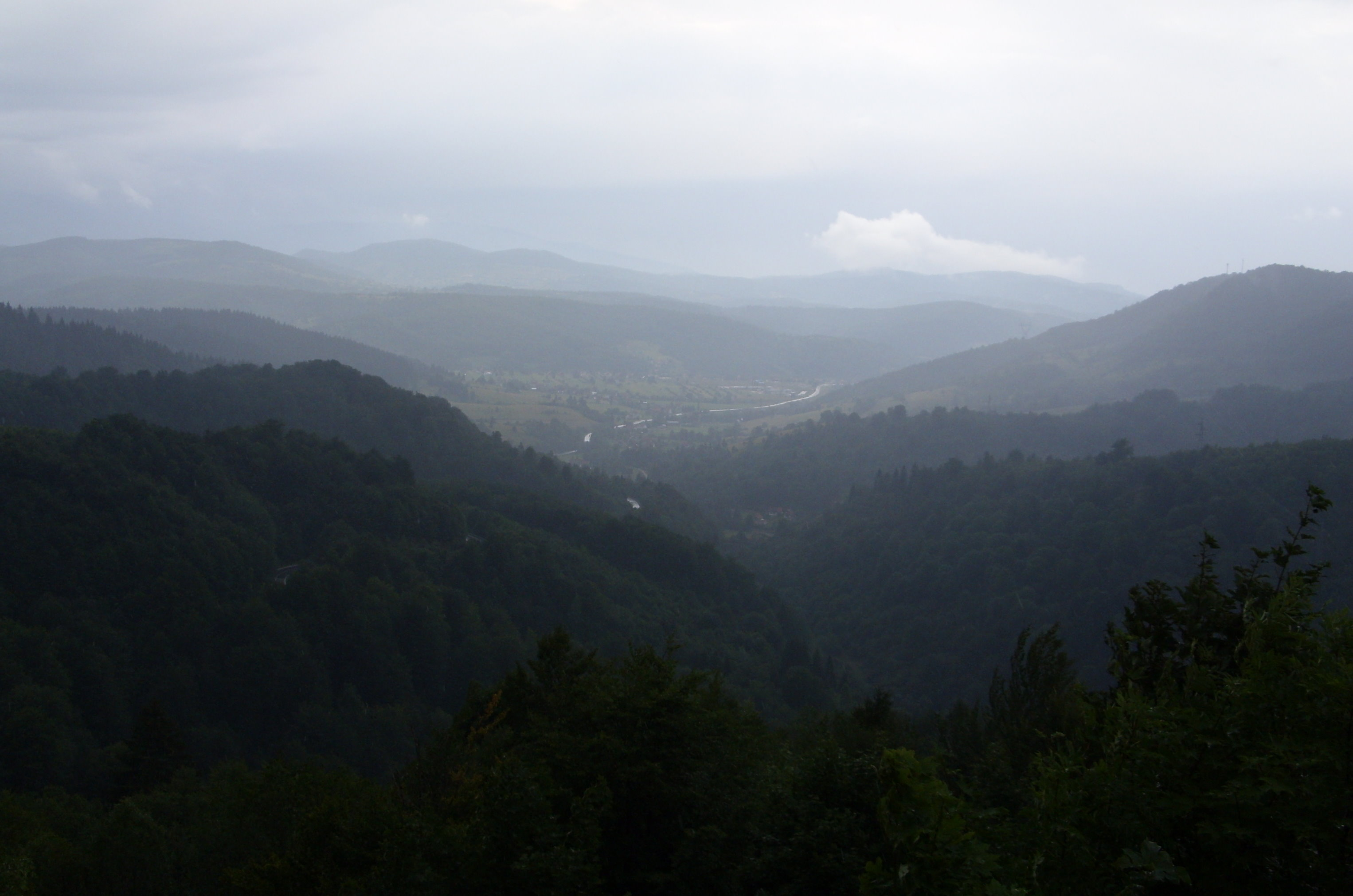 View on Trnovo (Bosnia and Herzegovina).